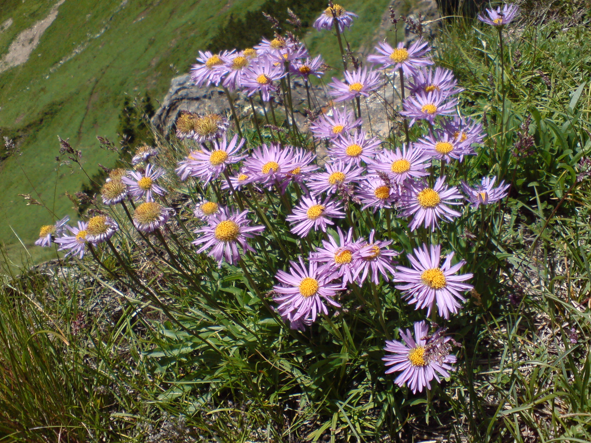 A cluster of Aster alpinus as found in natural surroundings in the Austrian Alps during mid-summer.